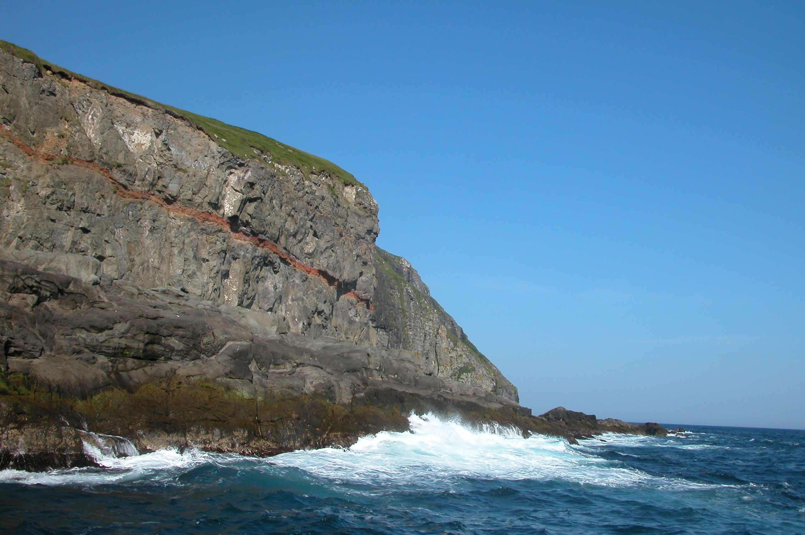 Shore at Kirkja on Fugloy, Faroe Islands.